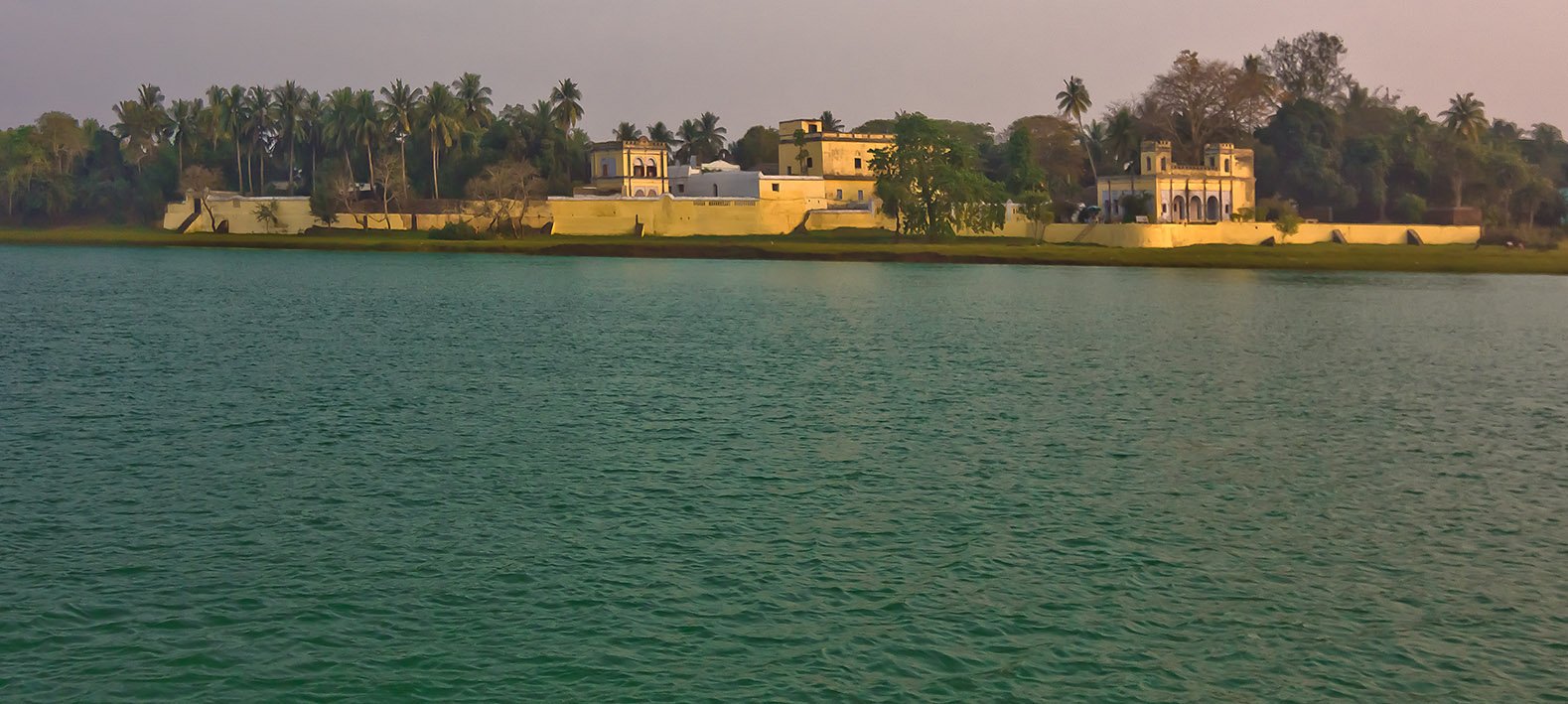 Aul Palace is situated in Aul, Kendrapara, Odisha. It is a famous tourist place. There is a vast history is lying behind the palace.